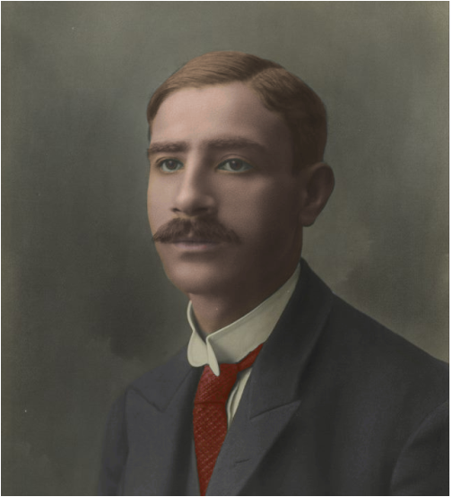 Cosme Damião, founder of Sport Lisboa e Benfica